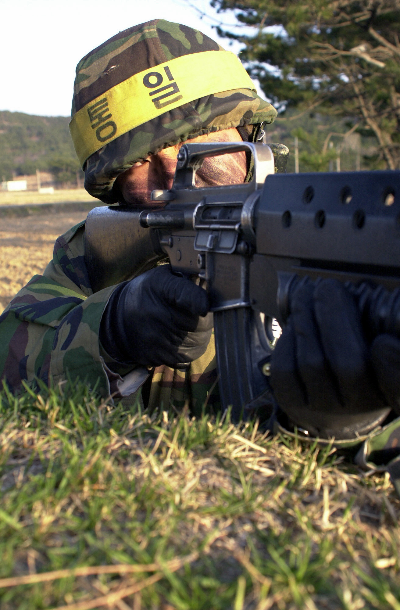 A Republic of Korea (ROK) Soldier aims his 5.56mm M16A1 rifle with 40mm M203 grenade launcher attached while conducting beach assault training during combined Exercises Reception, Staging, Onward Movement, and Integration/Foal Eagle 2002 (RSOI/FE 02). RSOI is an annual combined/Joint Command Post Exercise held by Combined Forces Command, Republic of Korea and US Forces Commanders to train and evaluate command capabilities to receive US forces from bases outside of Korea. Foal Eagle is a Counter Infiltration Field Training Exercise. 2002 marks the first time that the two major exercises have been conducted simultaneously.